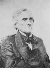 Photo of U.S. senator William Woodbridge (W-MI).